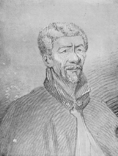 Drawing of Veldkornet Andries Botha. Leader of Kat River Khoi and Cape Colony politician.